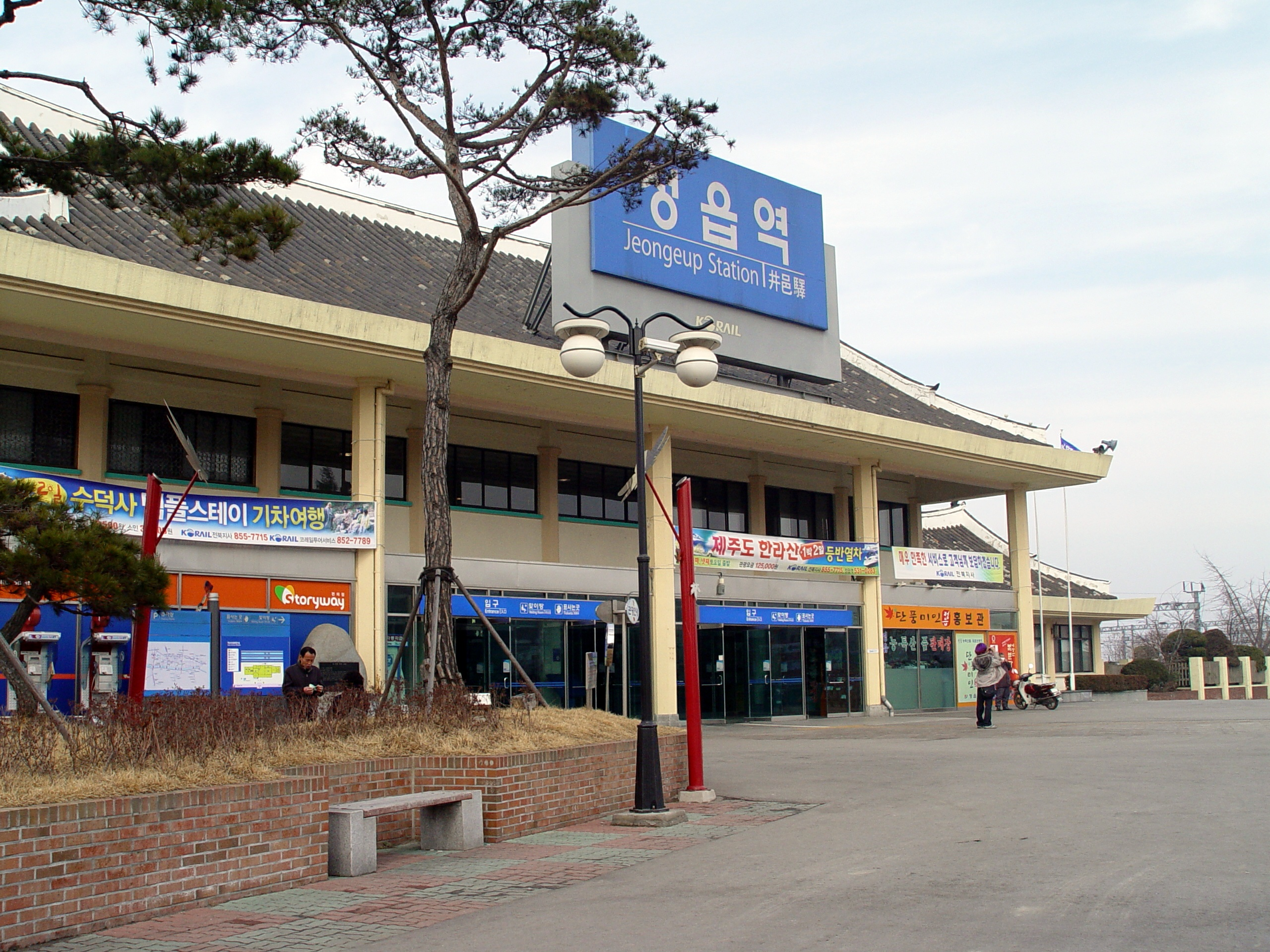 Jeongeup Station, South Korea